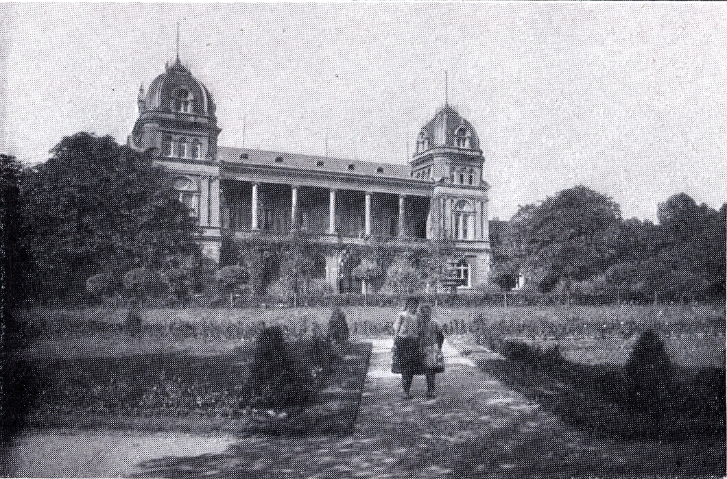 t